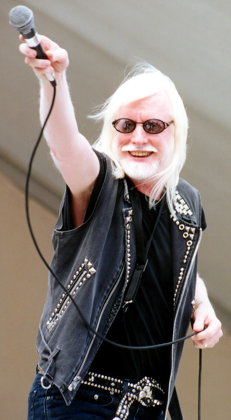 Edgar Winter performing at Gulfstream Park in Hallandale, Florida